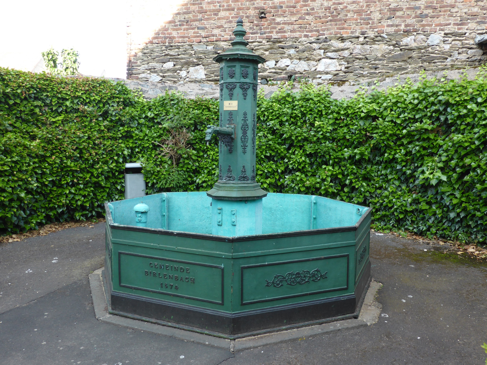 Cast-iron fountain in Birlenbach of 1874